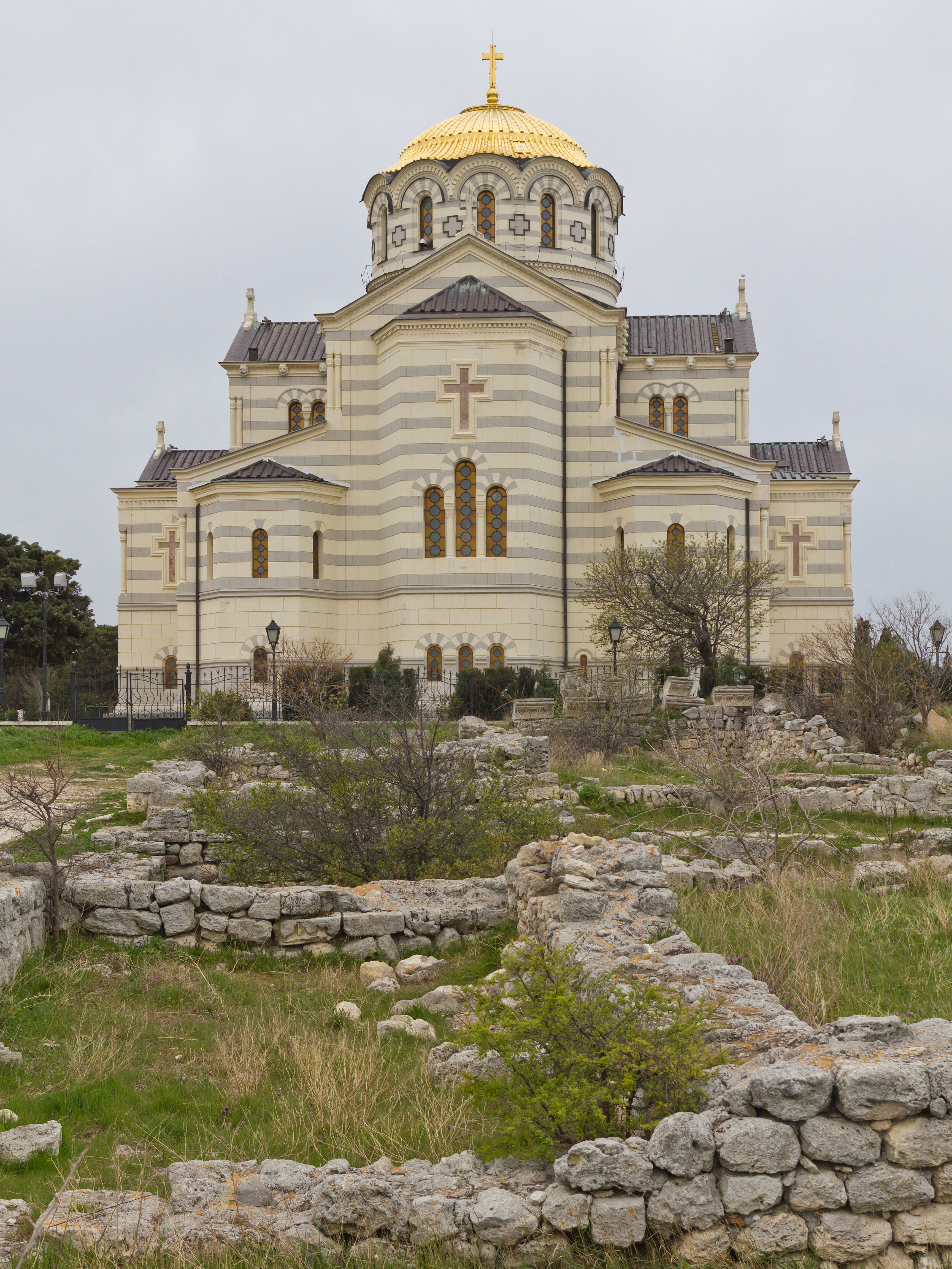 The archaeological site at Chersonesus in the Federal City of Sevastopol. Crimean peninsula.